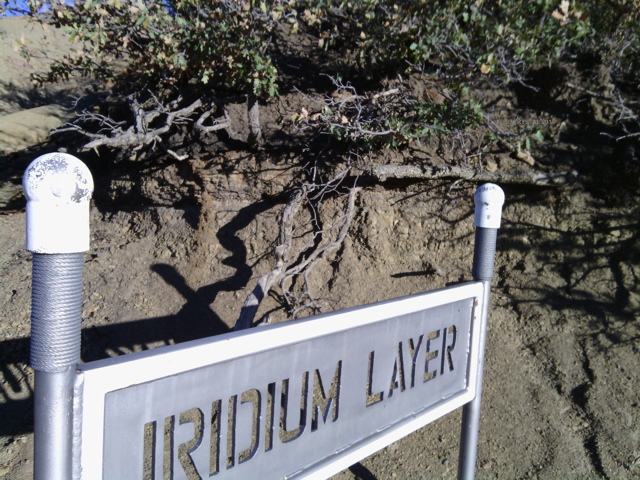 Iridium Layer K-T Boundary Raton New Mexico USA - Climax Canyon Park, City of Raton, NM. Sign at the rock strata exposure of the Cretaceous-Paleogene (K-Pg).